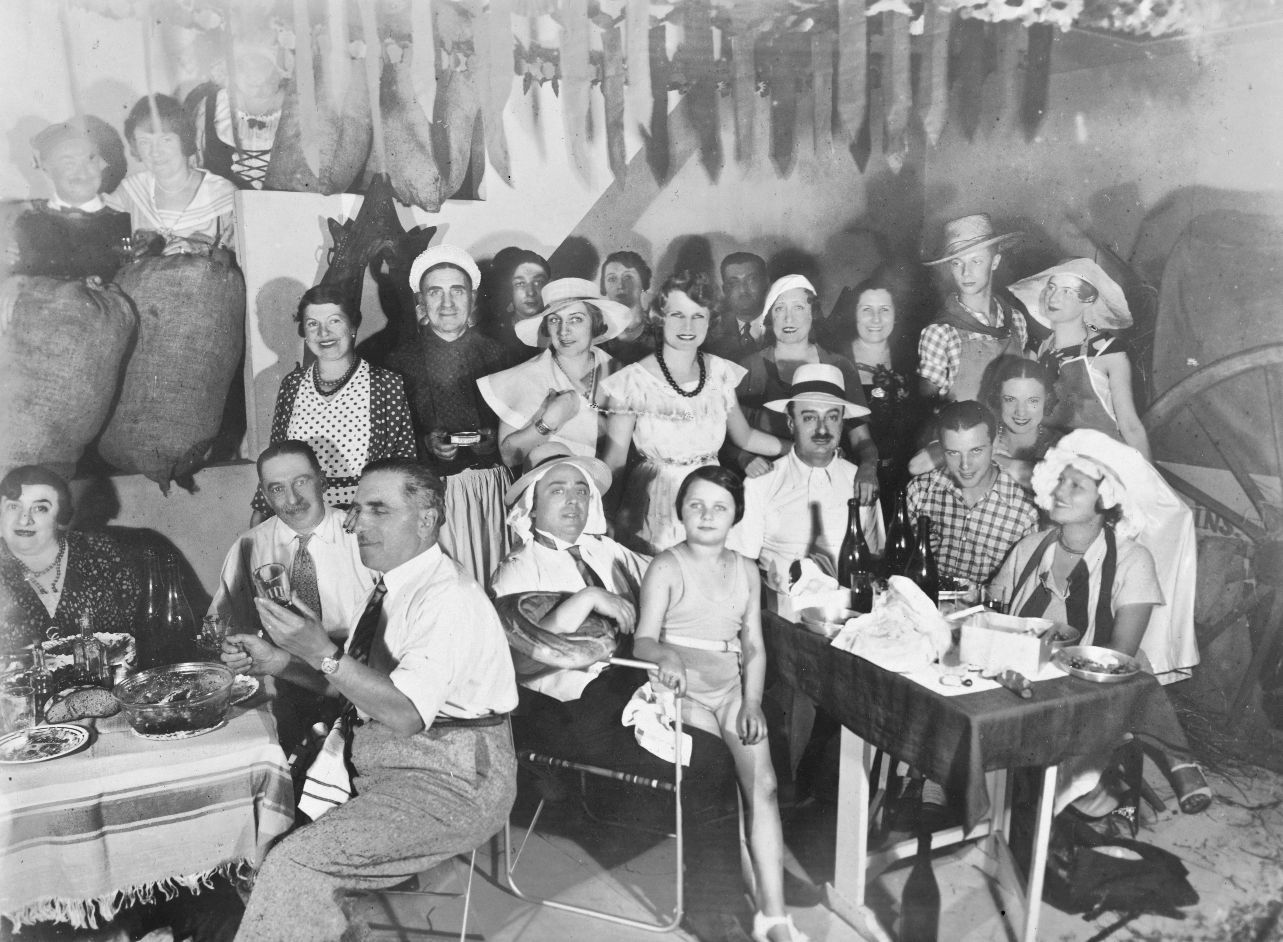 The Debray family with Madeleine, Georges & Marie-Jacques Perrier, as well as other guests. Staircase designed by Le Corbusier. Paris 1933.